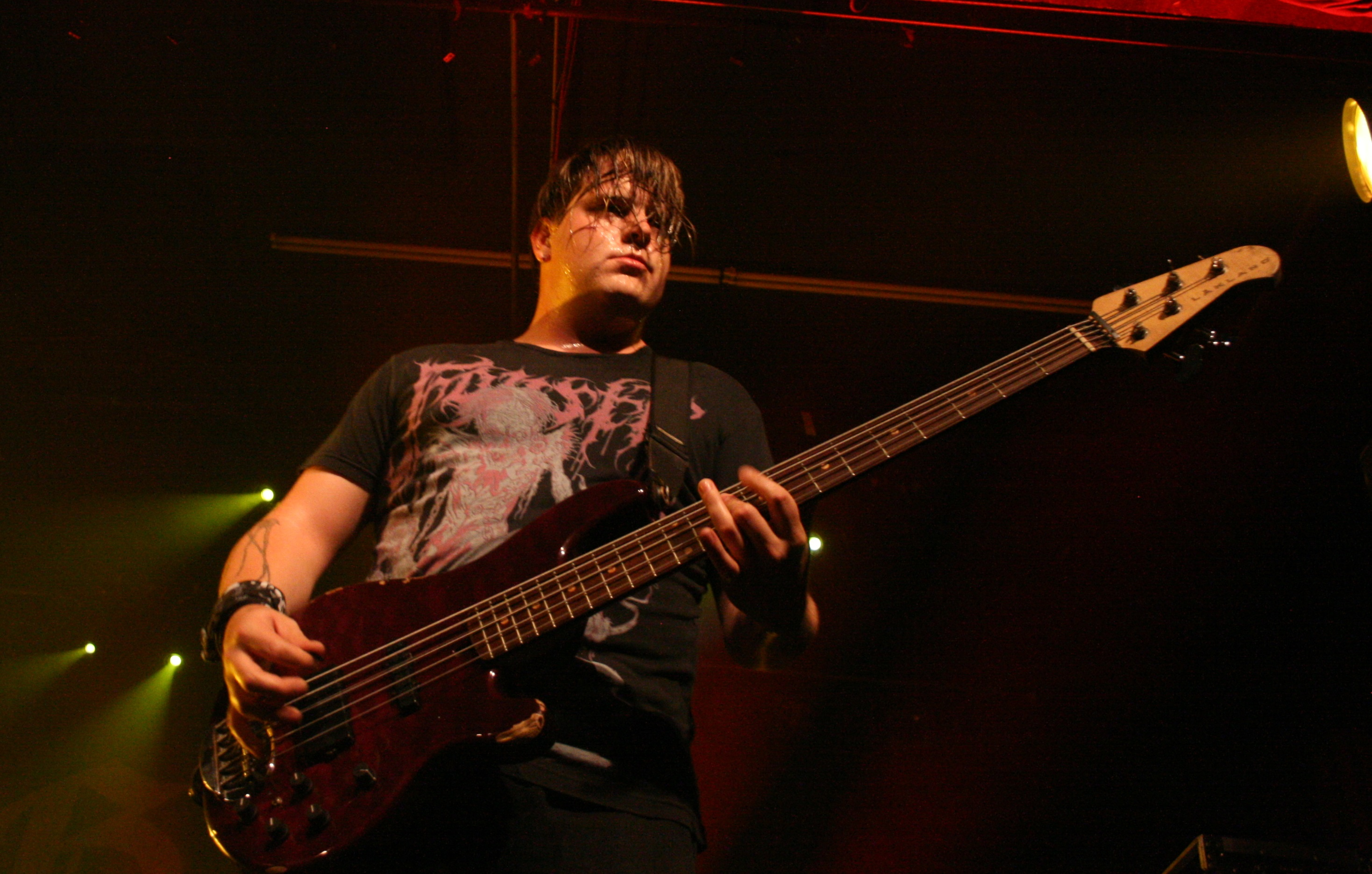 Paul Thomas performing with Good Charlotte in 2008